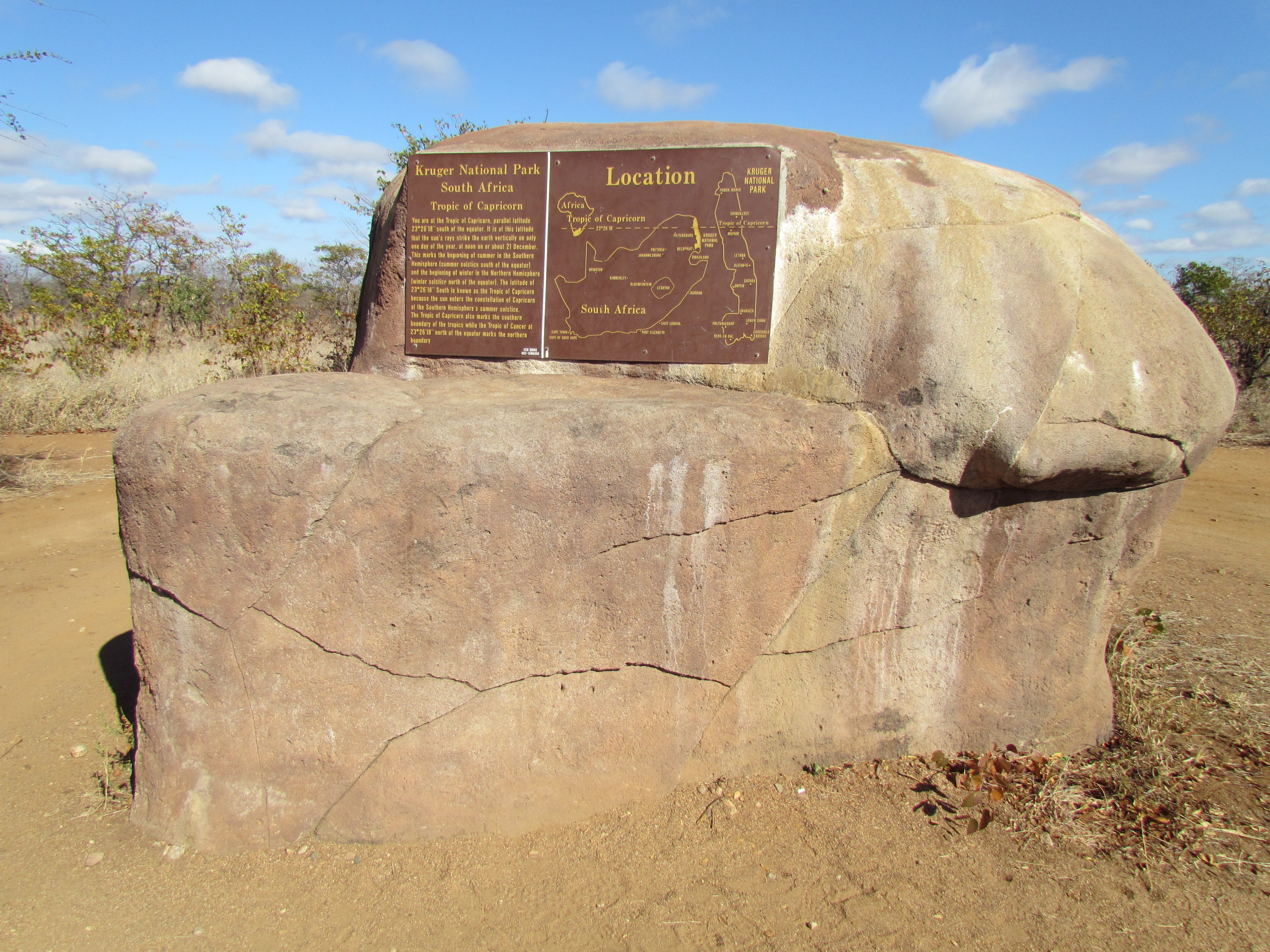 Where the tropic of capricorn crosses the Kruger National Park